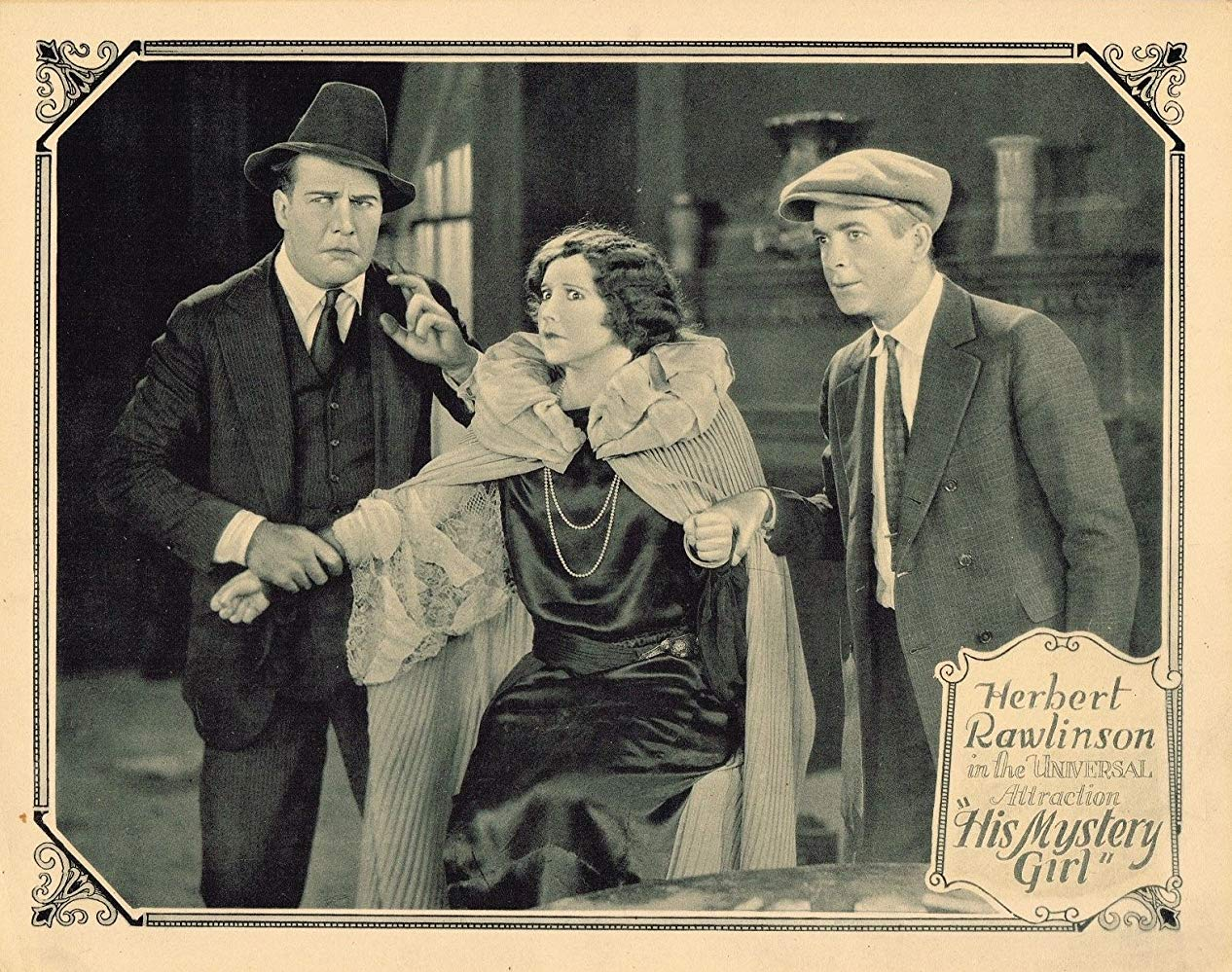 This is a lobby card for the 1923 American silent comedy film His Mystery Girl.